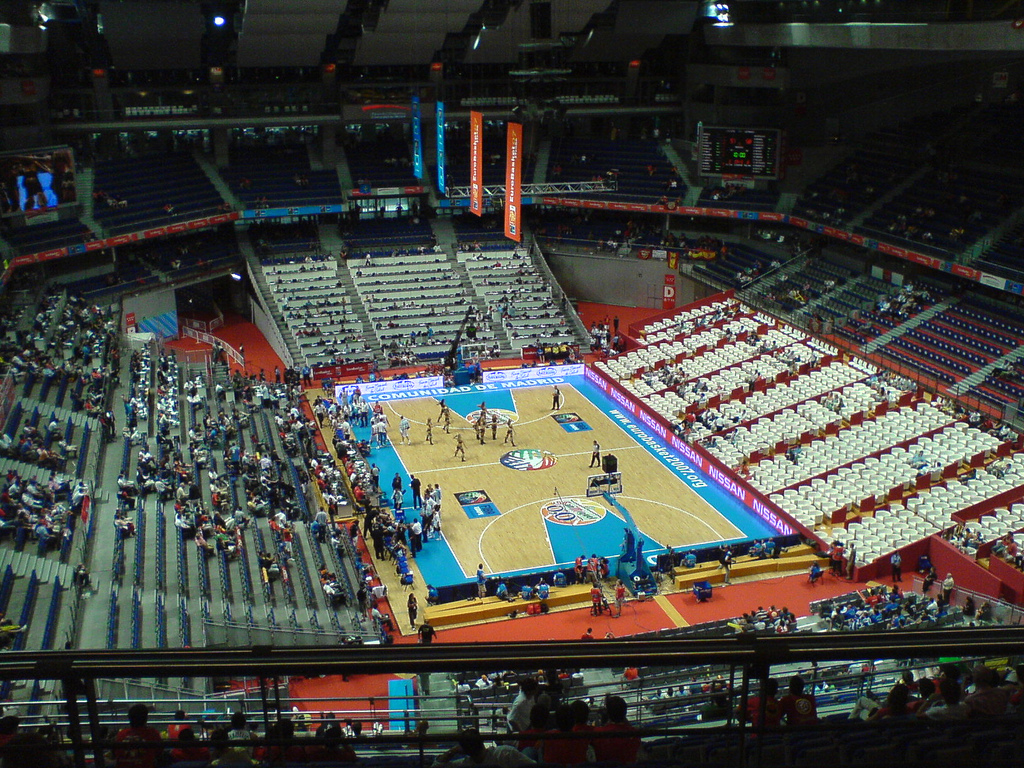 Palacio de Deportes de la Comunidad de Madrid (Madrid, Spain, built 2002–2005). Indoor sports building. Interior view, before the match for the bronze medal of Eurobasket 2007.